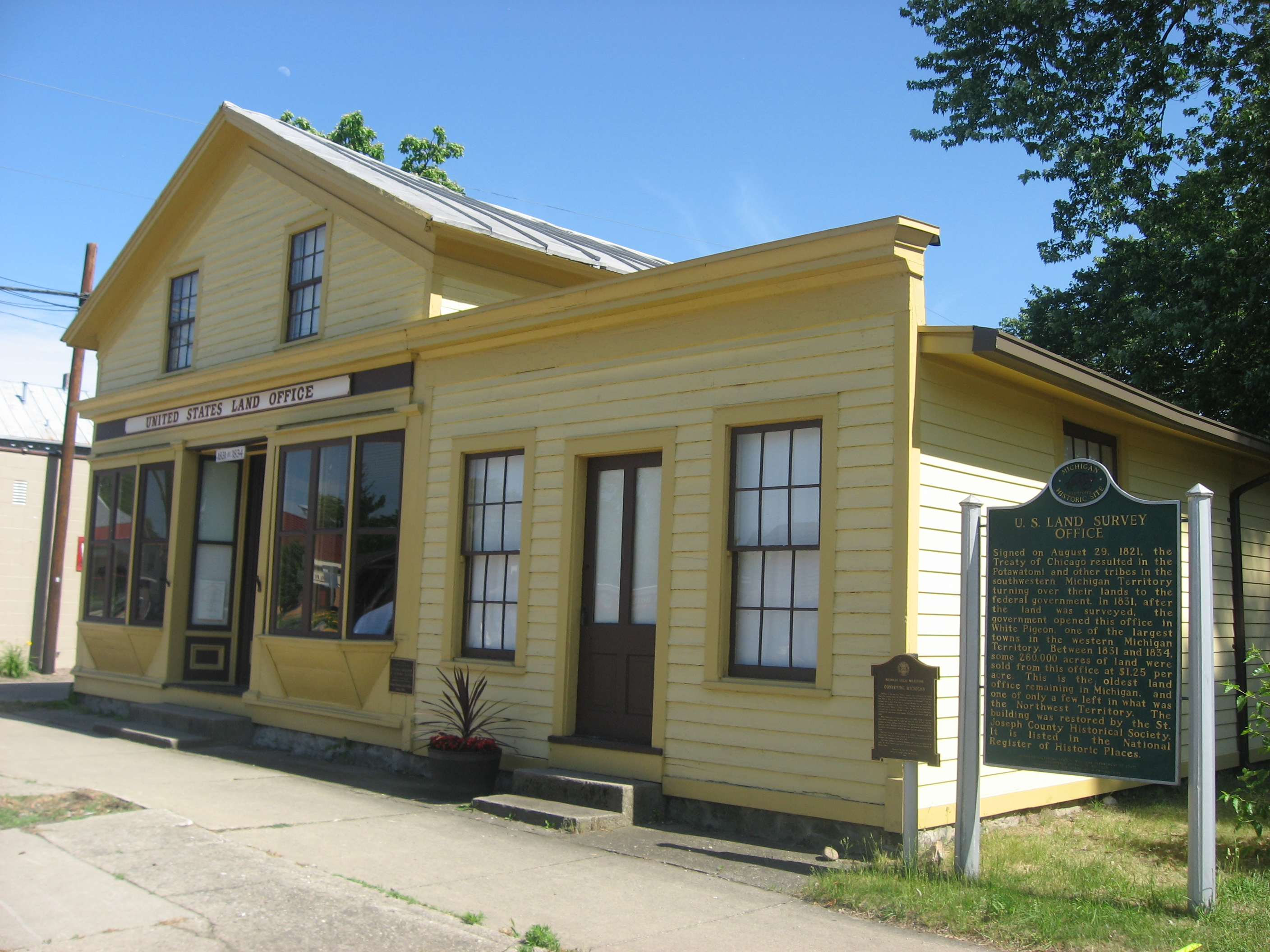 Front and western side of the Old US Government Land Office Building, located at 113 W. Chicago Road (U.S. Route 12) in White Pigeon, Michigan, United States. Built in 1831, it is Michigan's oldest extant federal land office and one of just a few remaining throughout the former Northwest Territory. It is listed on the National Register of Historic Places.